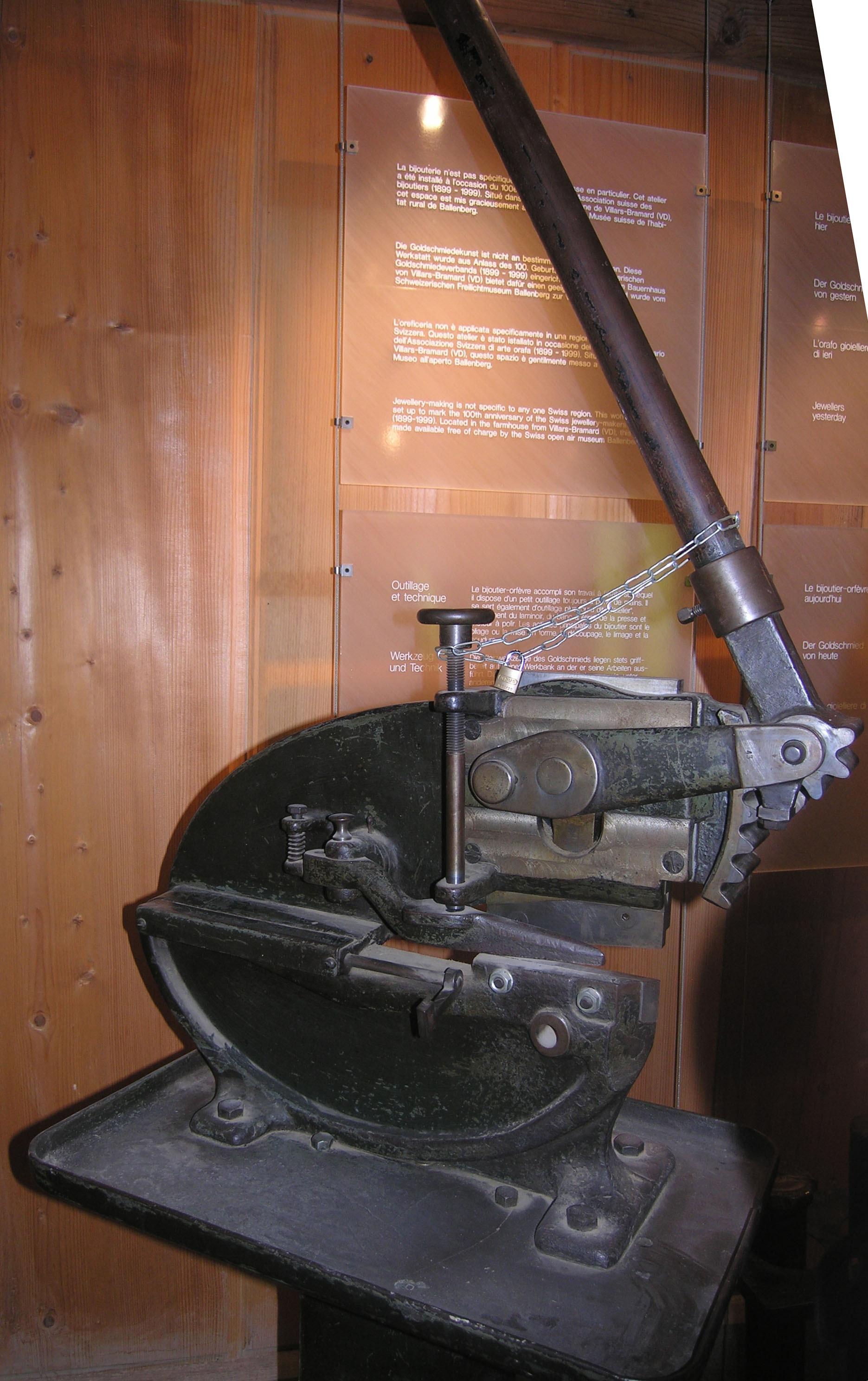 Lever shears (goldsmith tool).